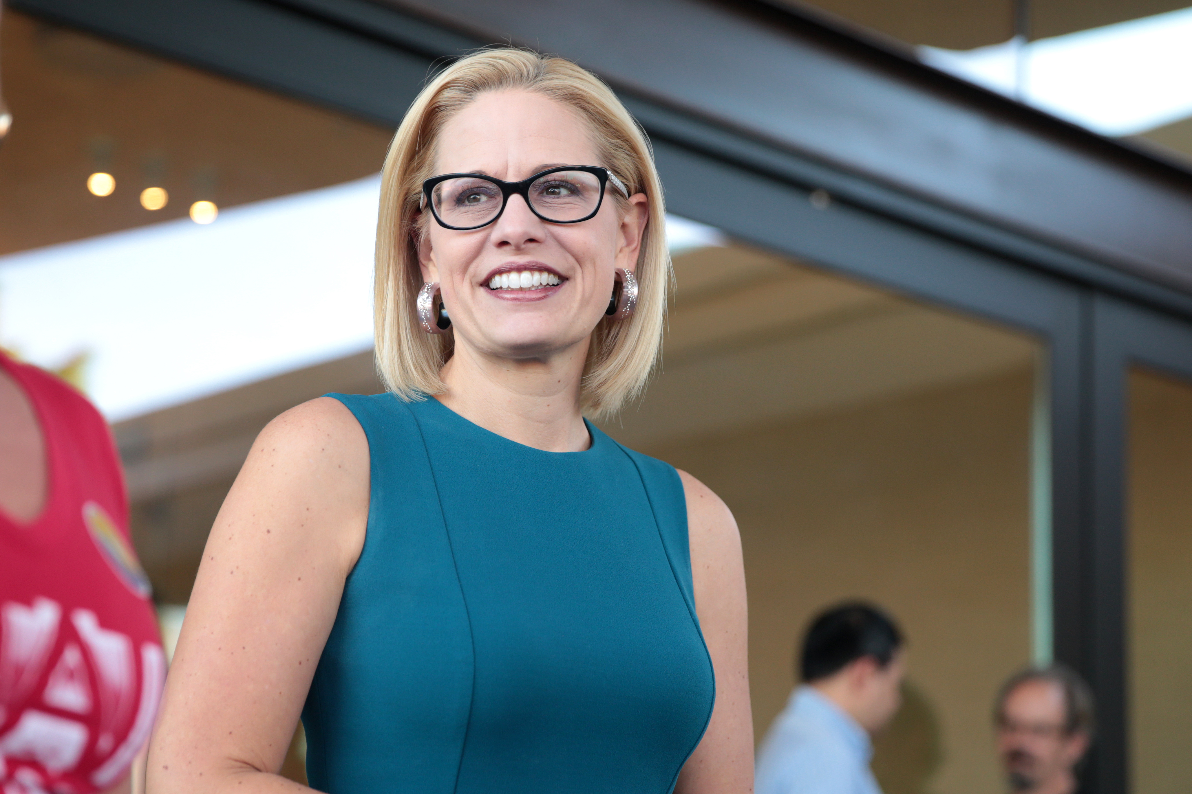 U.S. Congresswoman Kyrsten Sinema speaking with supporters at a neighborhood canvas hosted by the Arizona Education Association at Provision Coffee Arcadia in Phoenix, Arizona.